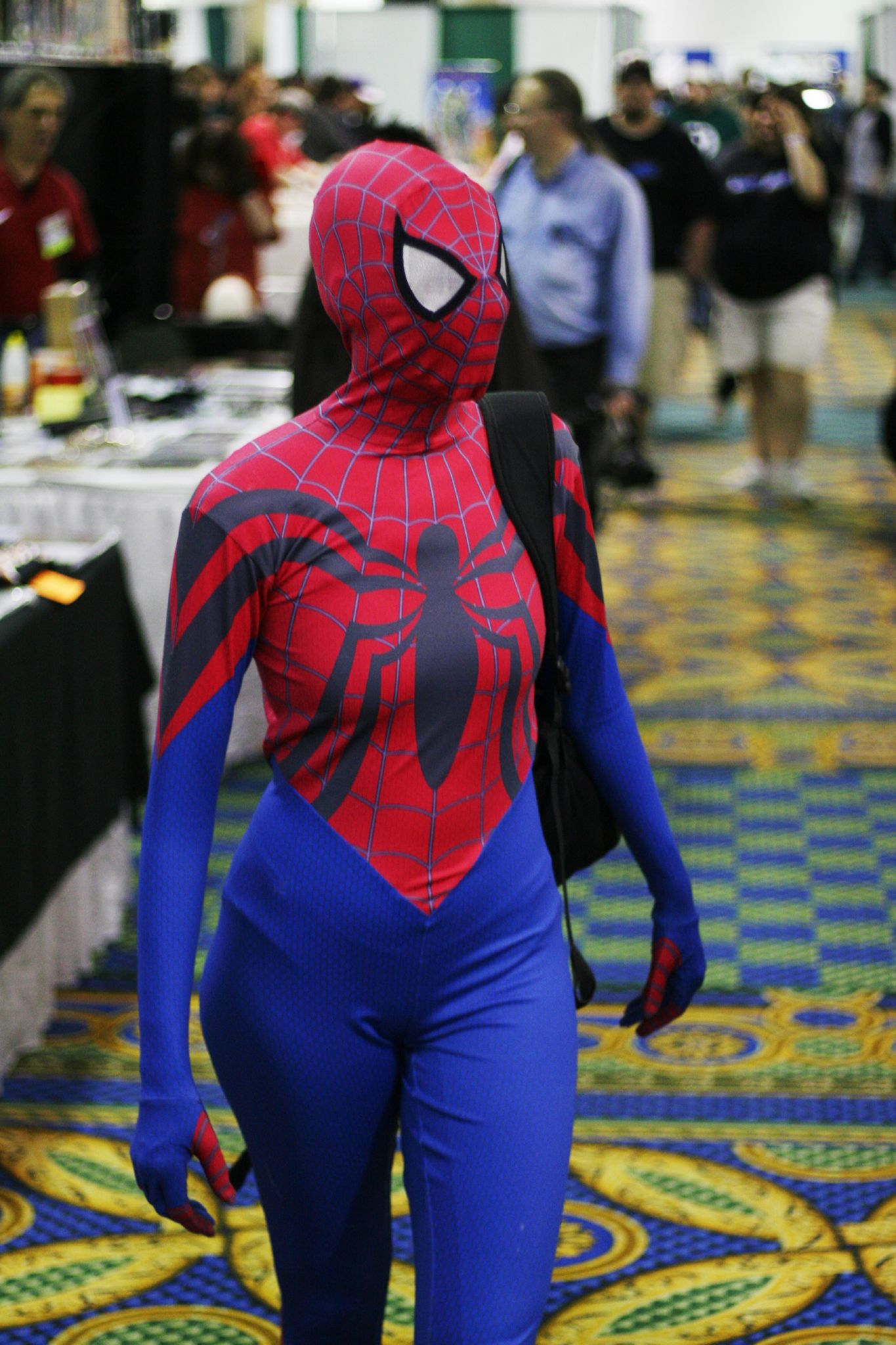 Woman dressed as the May Parker version of Spider-Girl.